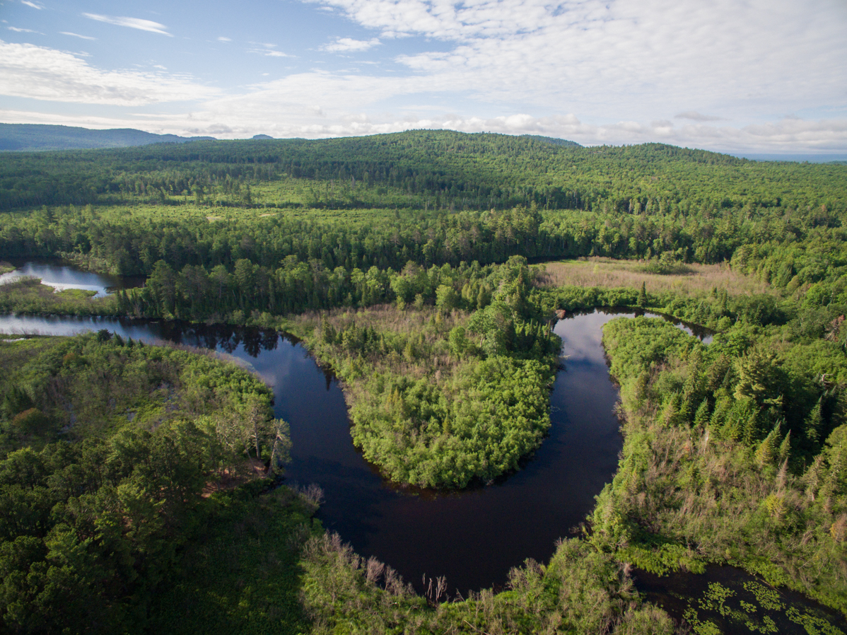 Aerial View of the Huron River facing Southeast.